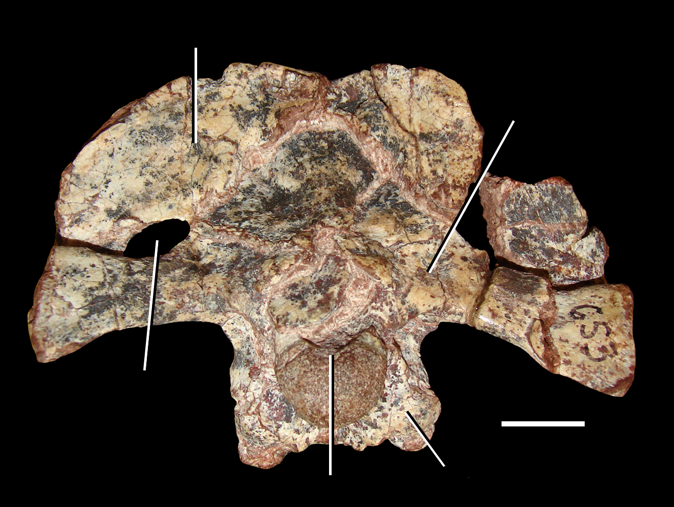 Braincase of the holotype specimen of Azendohsaurus madagakarensis, UA 7-20-99-653, in occipital view (from behind). Scale bar equals 1 cm. Modified from Ezcurra (2016).